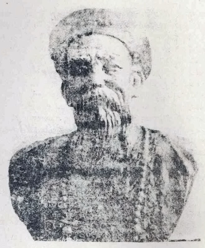 Portrait of mathematician Minggatu